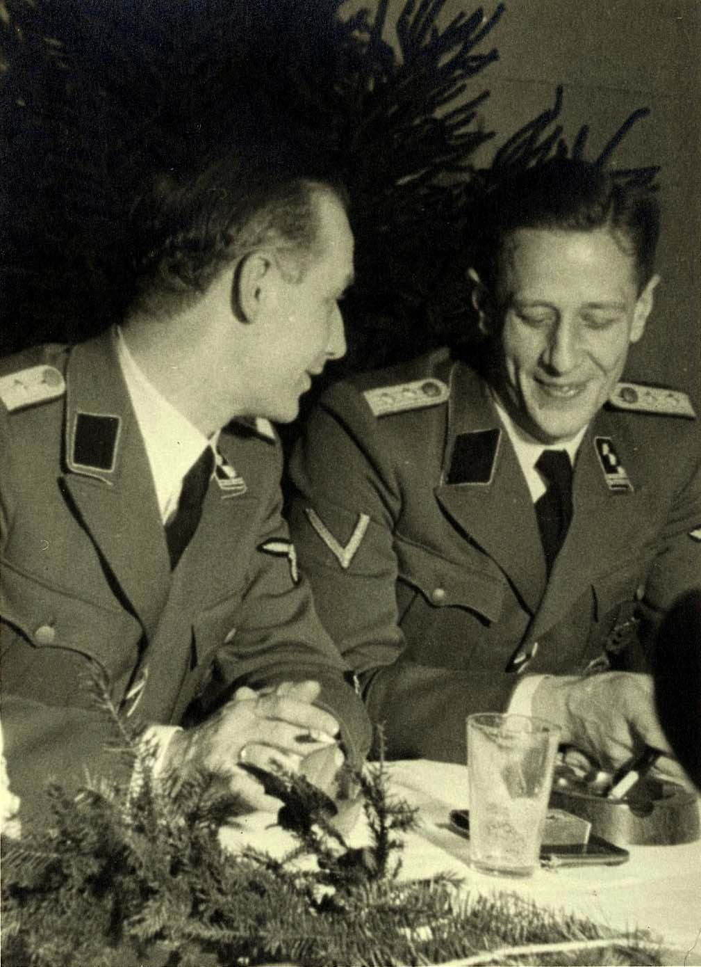 Christmas in concentration camp Westerbork (The Netherlands), "Yule", December 1942. Left Kampcommandant SS Obersturmführer Albert Konrad Gemmeker; on the right SS Hauptsturmführer Aus der Fünten